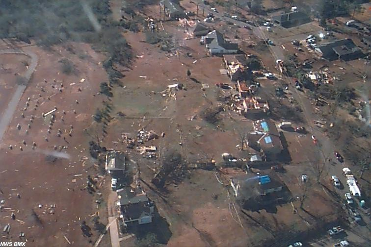 Homes and buildings in Tuscaloosa showing various degrees of damage after the 1997 tornado. In the center right, there are at least two homes with the roofs completely ripped off; this is consistent with mid-grade F2 damage. Other surrounding homes are only missing portions or shingles from their roofs; consistent with F0-F1 damage. There are some uprooted trees visible towards the center of the photograph.